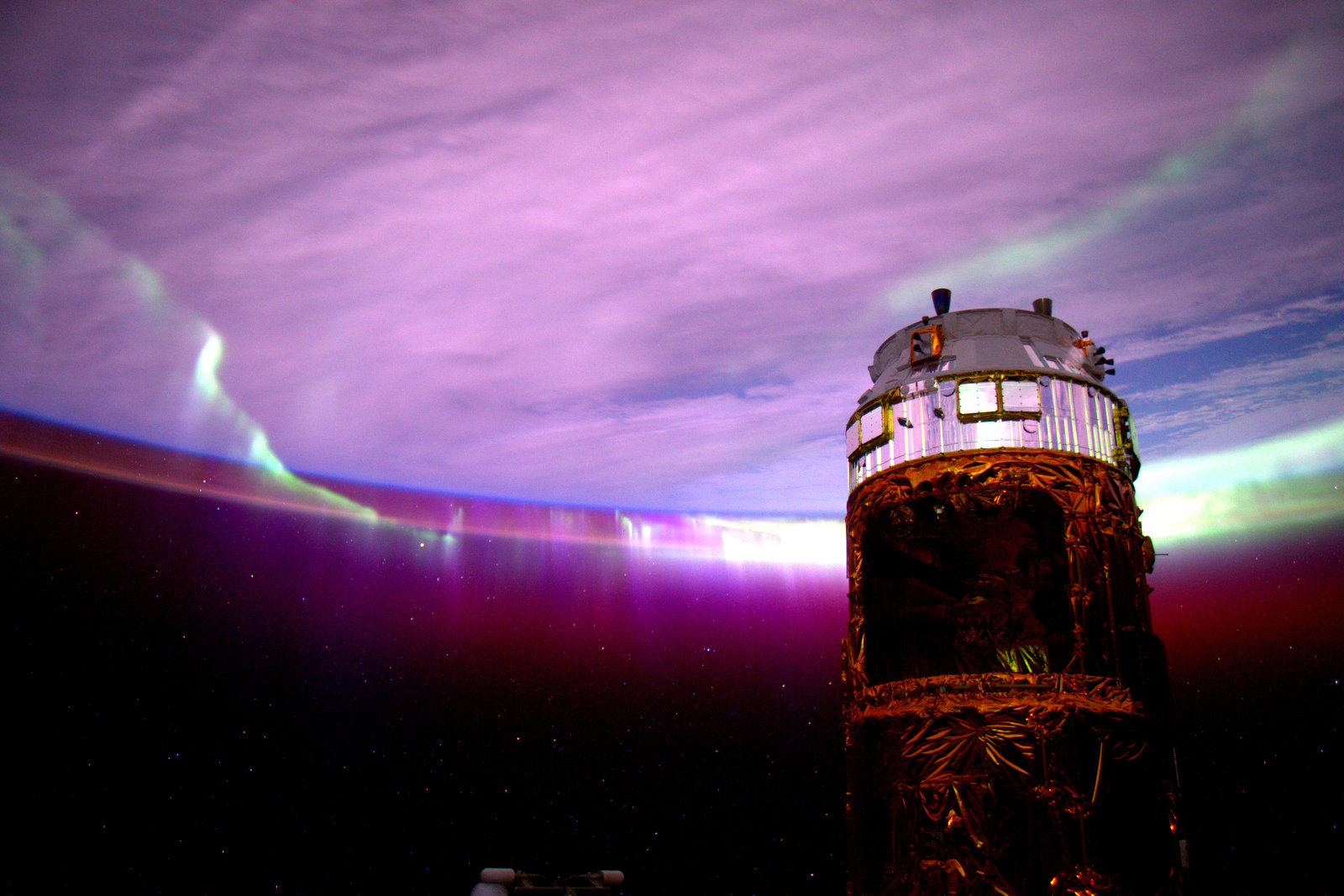 Astronaut Scott Kelly posted this photo of an aurora taken from the International Space Station to Instagram with the caption, "Day 154. Aurora's purple glow adds mystery to the nightscape. Good night from @ISS! YearInSpace space iss solarstorm northernlights goodnight."